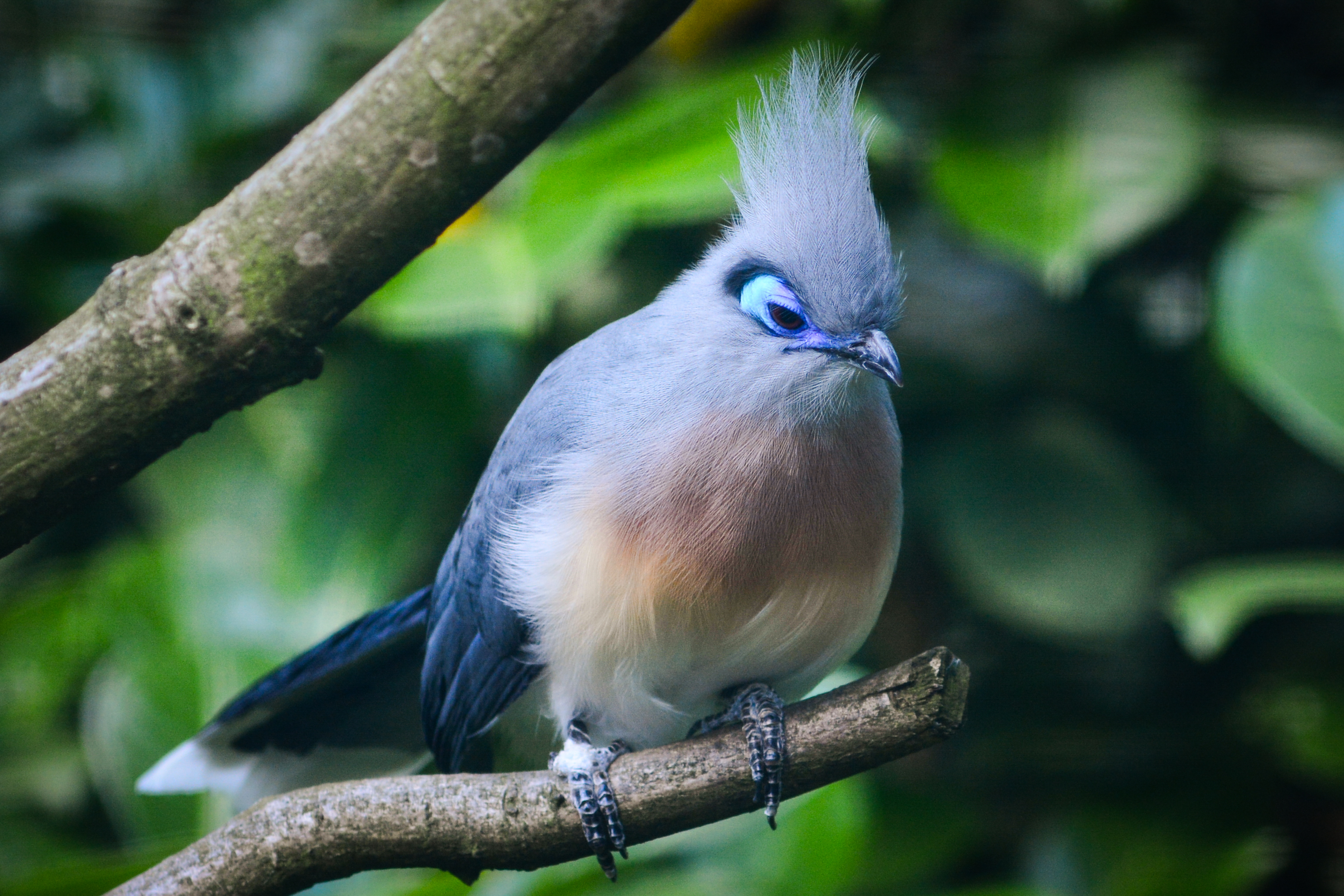 Crested Coua (Coua cristata) at Weltvogelpark Walsrode (Walsrode Bird Park, Germany)